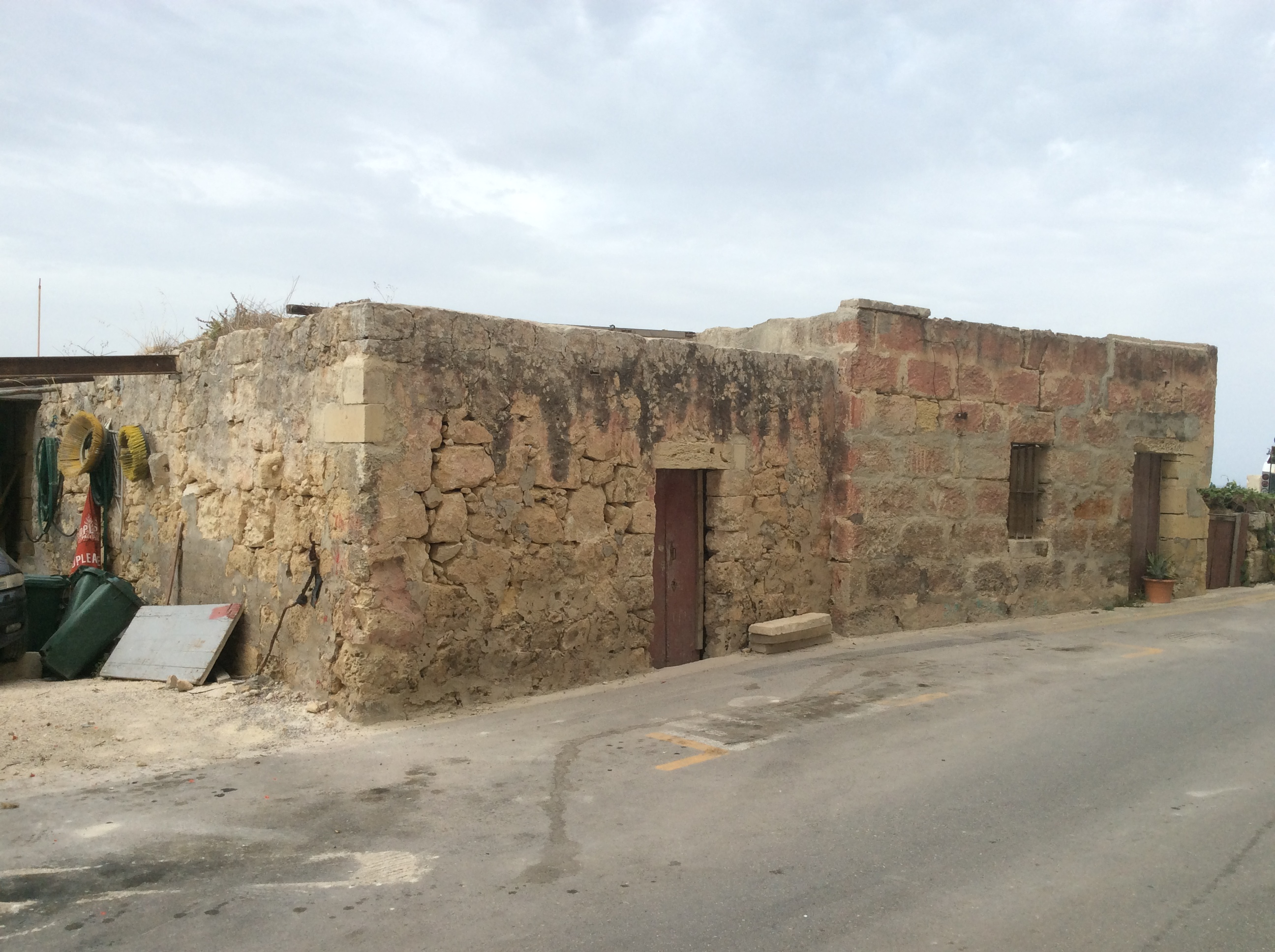 Ta Tabibu Farmhouse, as seen from road